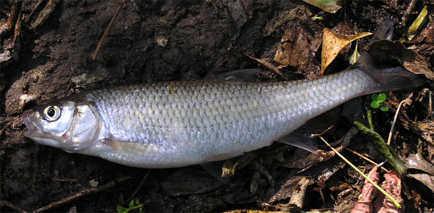 Common dace, 16 cm, caught in the Lipetsk oblast, Russia.